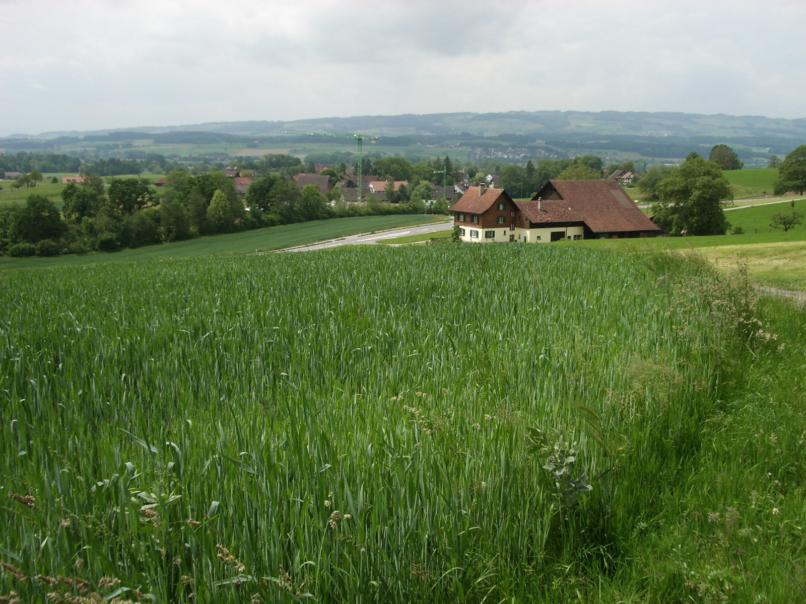 Maschwanden ZH, Switzerland